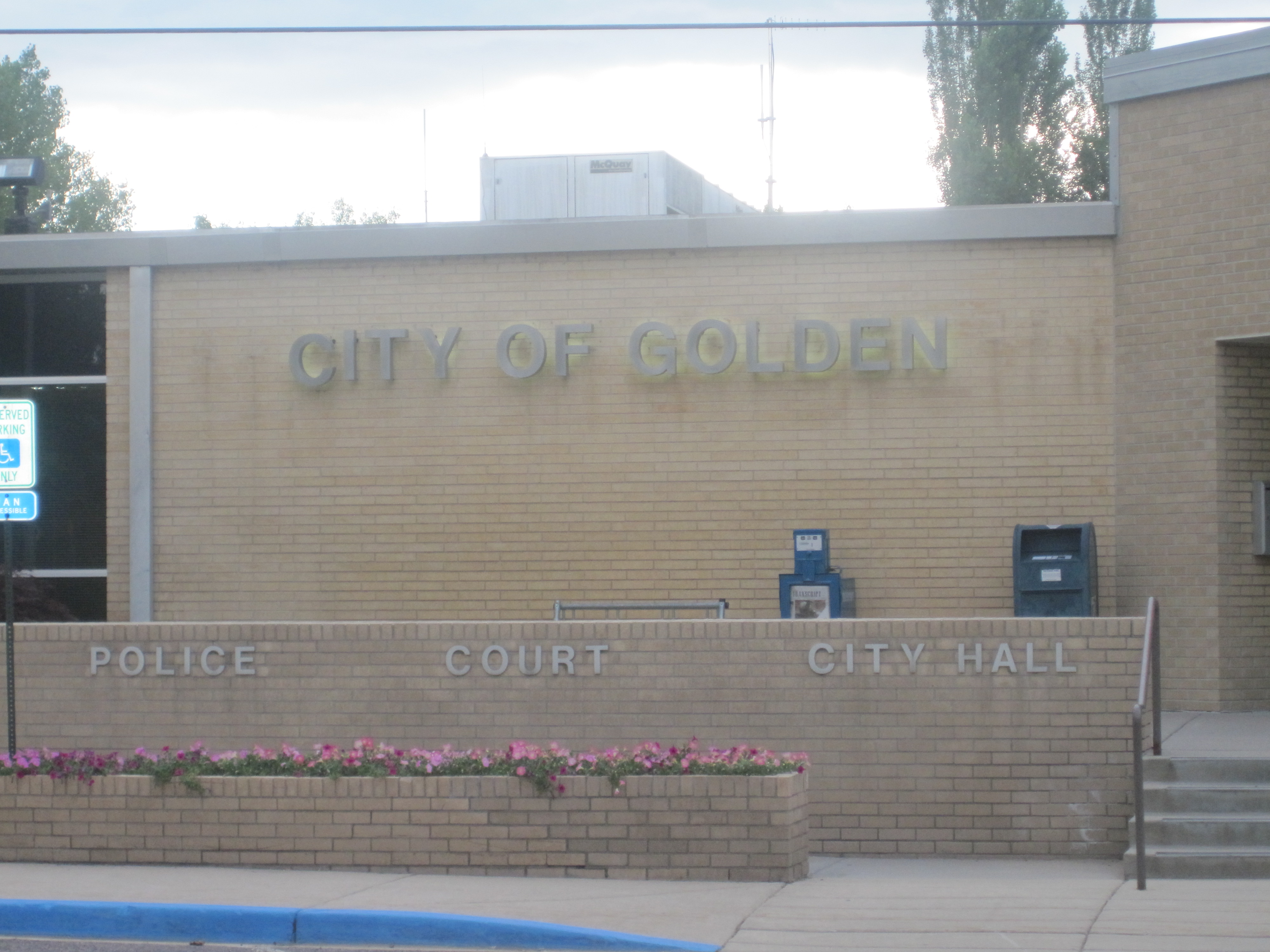 I took photo in Golden, CO, with Canon camera.